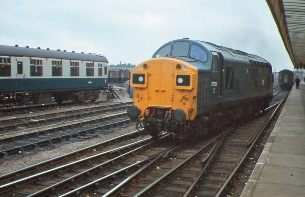 37051 at Cambridge, May 1978